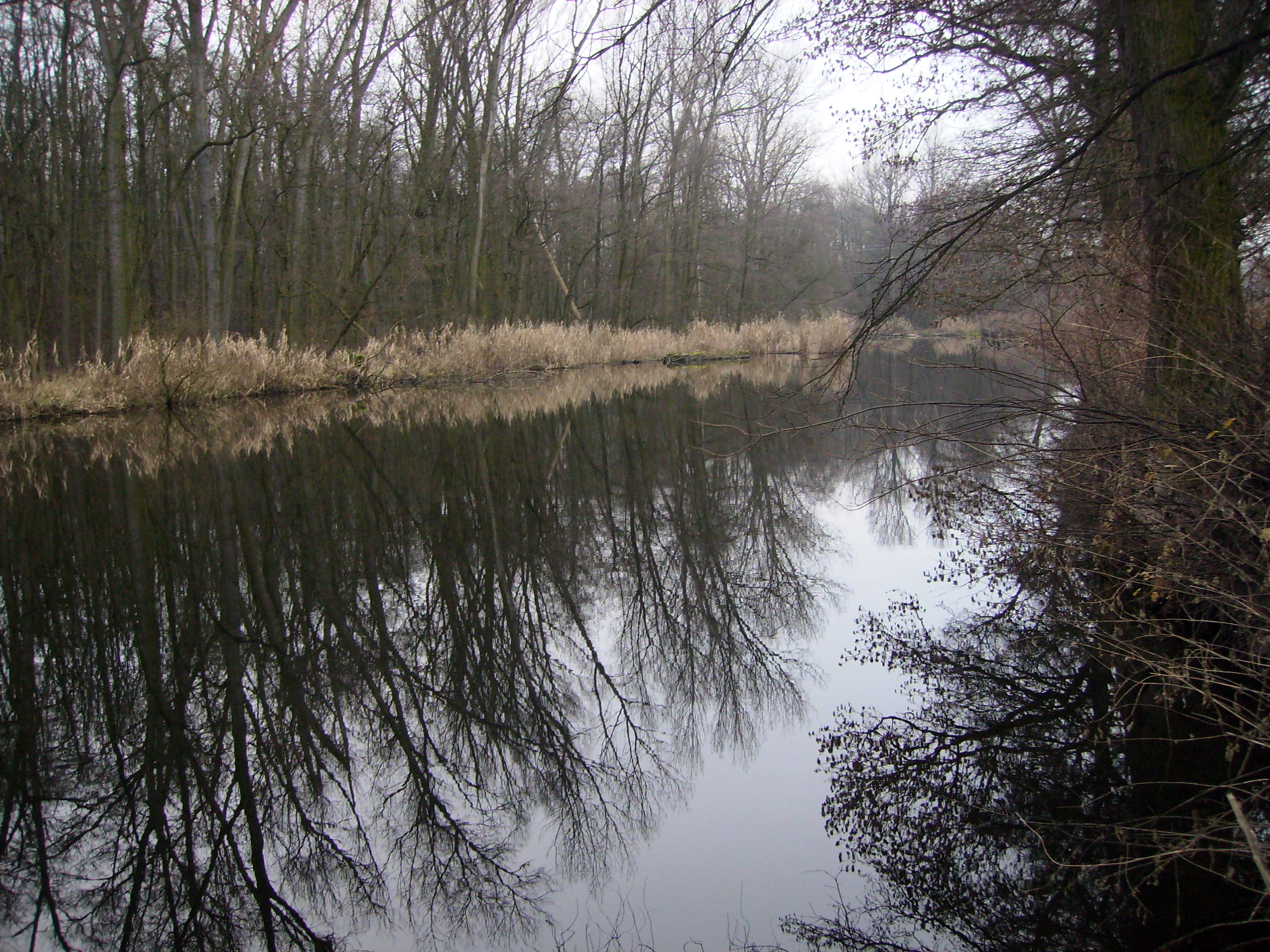 Byšická tůň (Pool of Byšice), an oxbow lake of the Elbe River near Byšičky, Czech Republic.